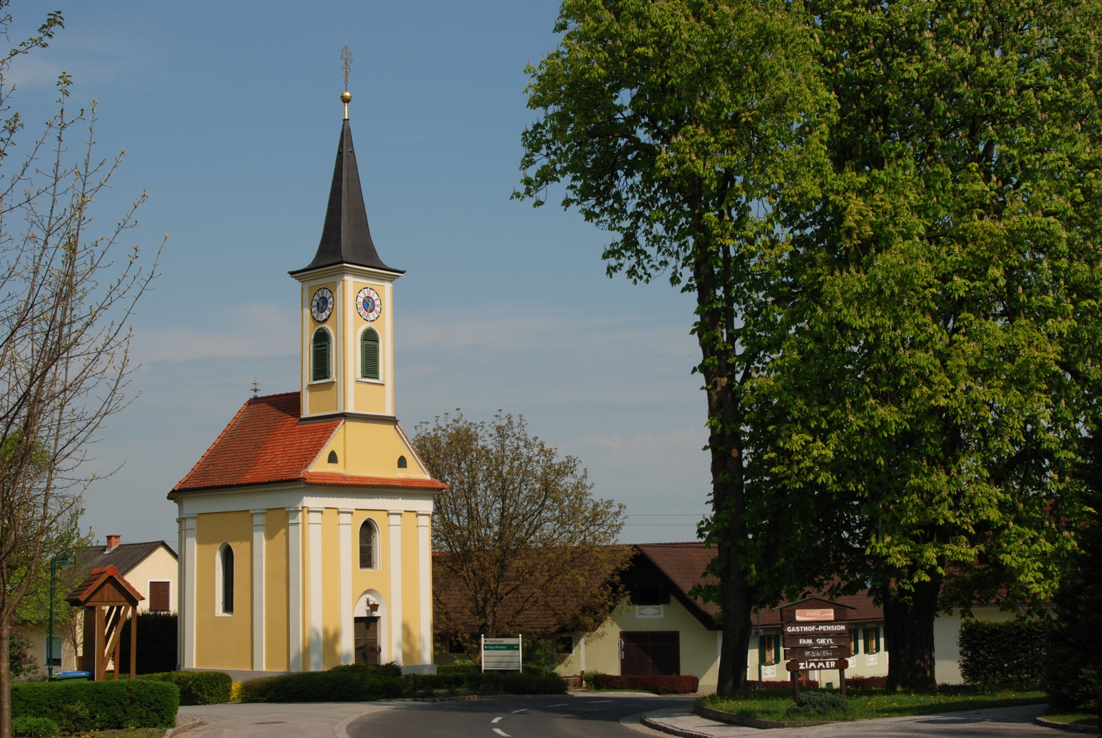 Maierhofen